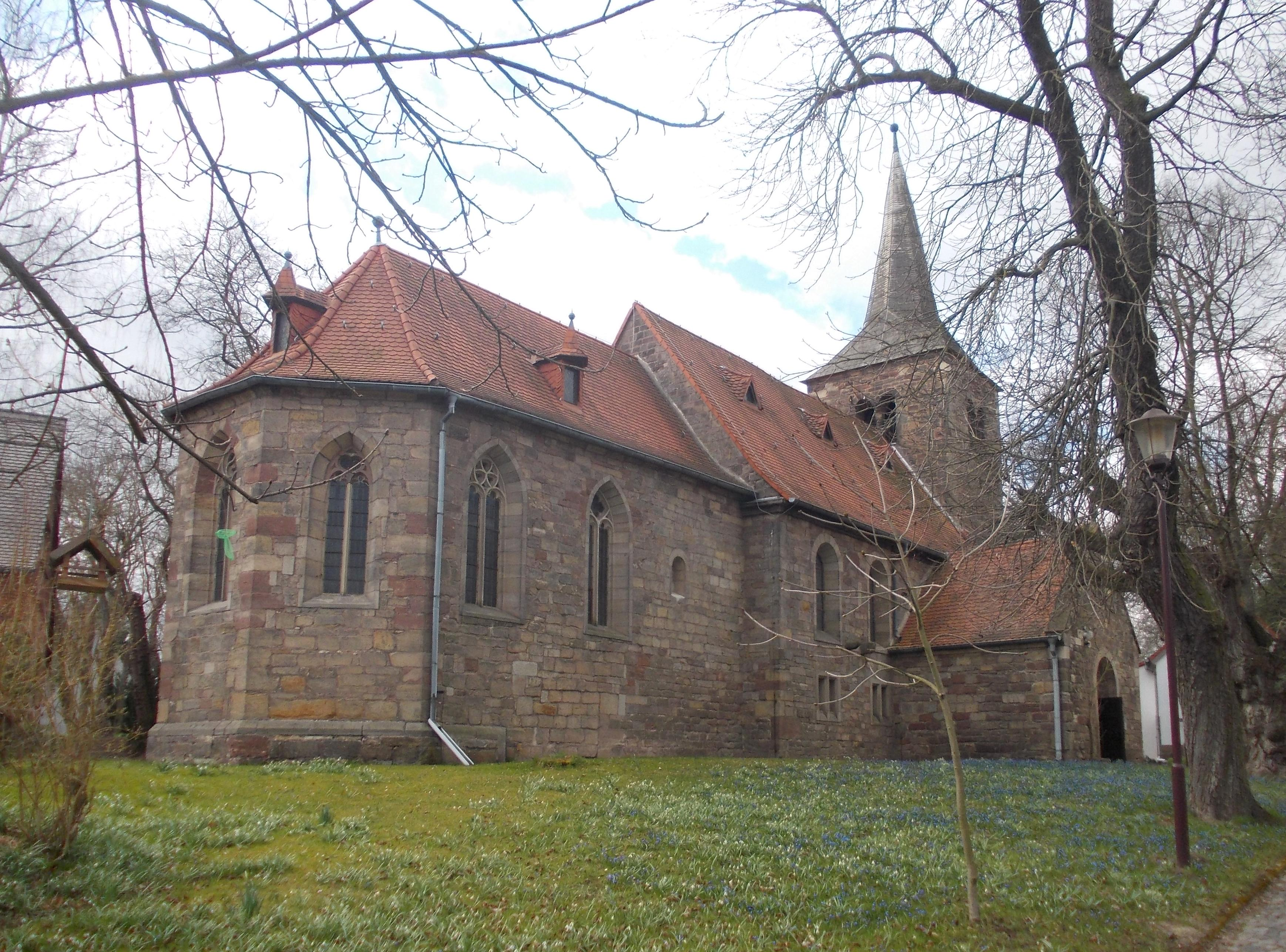 St. John's Church in Kirchscheidungen (Laucha an der Unstrut, district: Burgenlandkreis, Saxony-Anhalt)